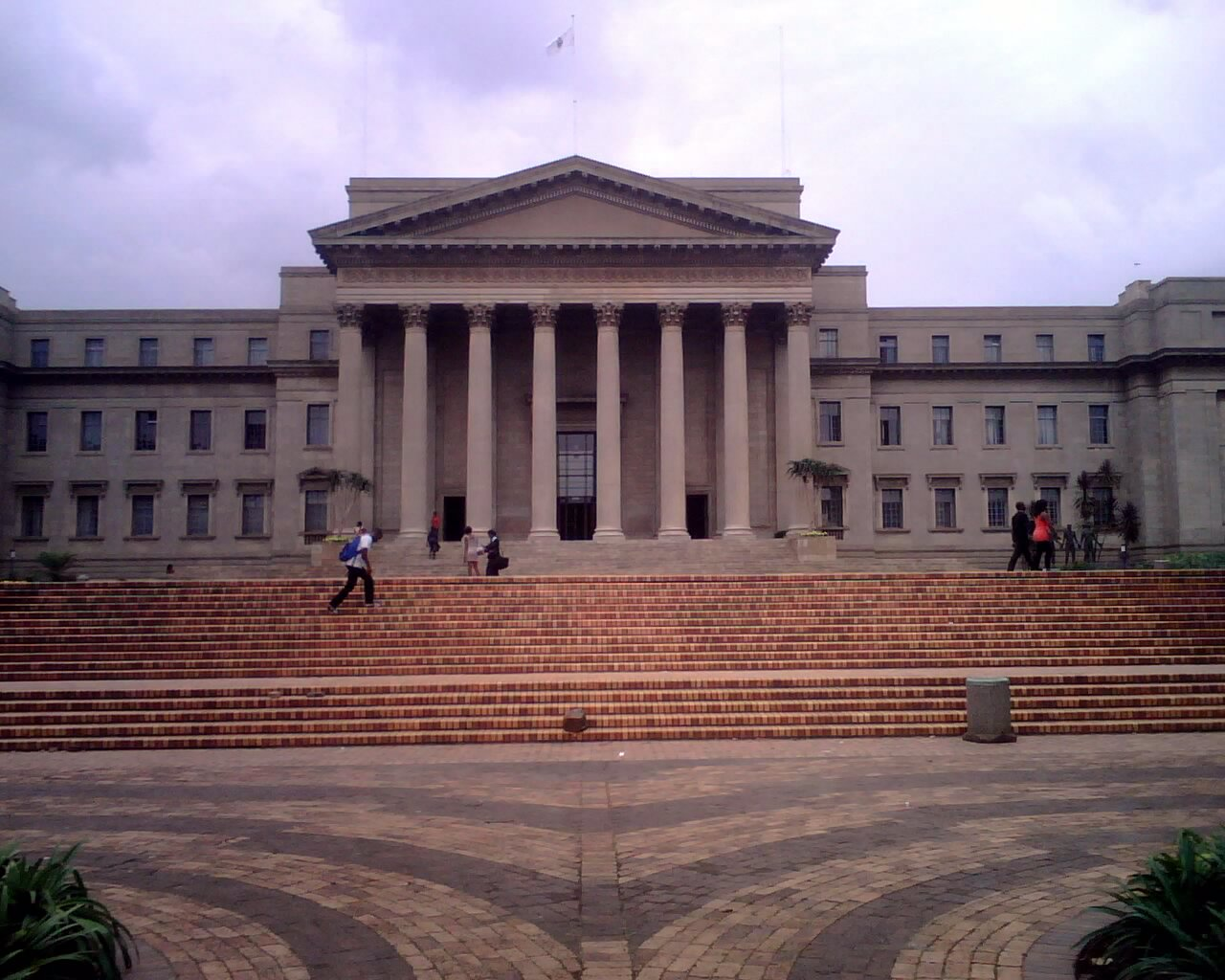 University of the Witwatersrand, Johannesburg. South African Protected Site with SAHRA file reference 9/2/228/0098